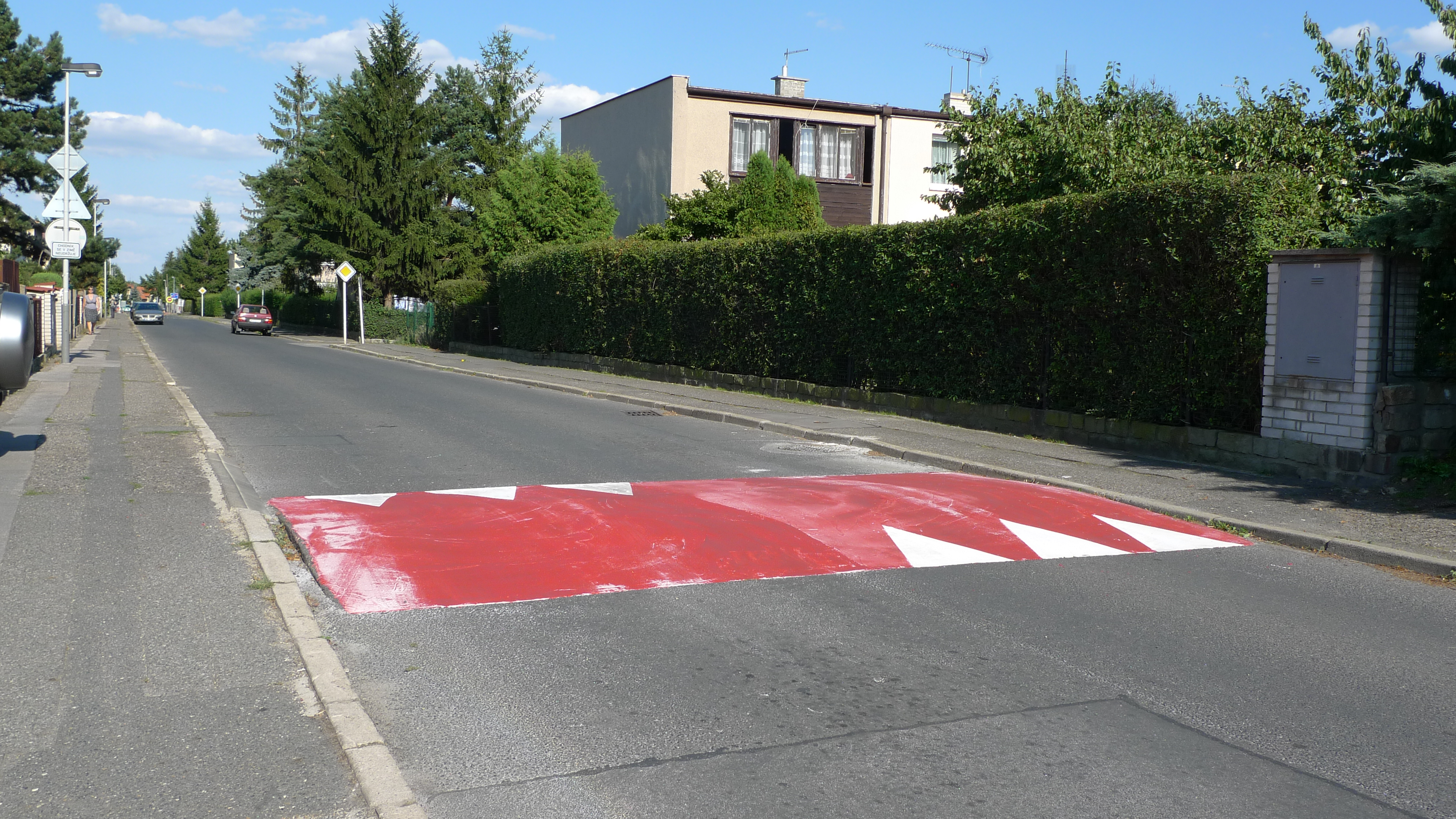 Speed hump in Horní Počernice, Czech Republic